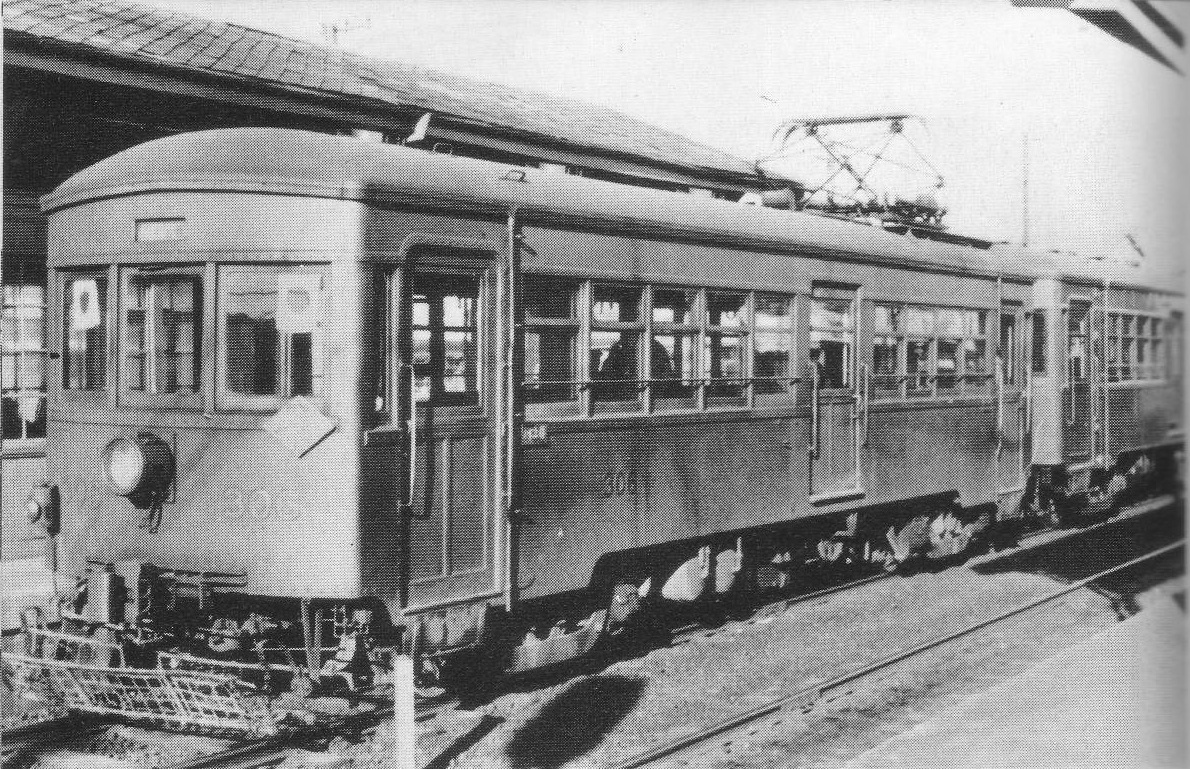 Keio Corporation #306. taken in 1941.